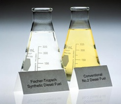 NREL FT diesel vs conventional diesel photo